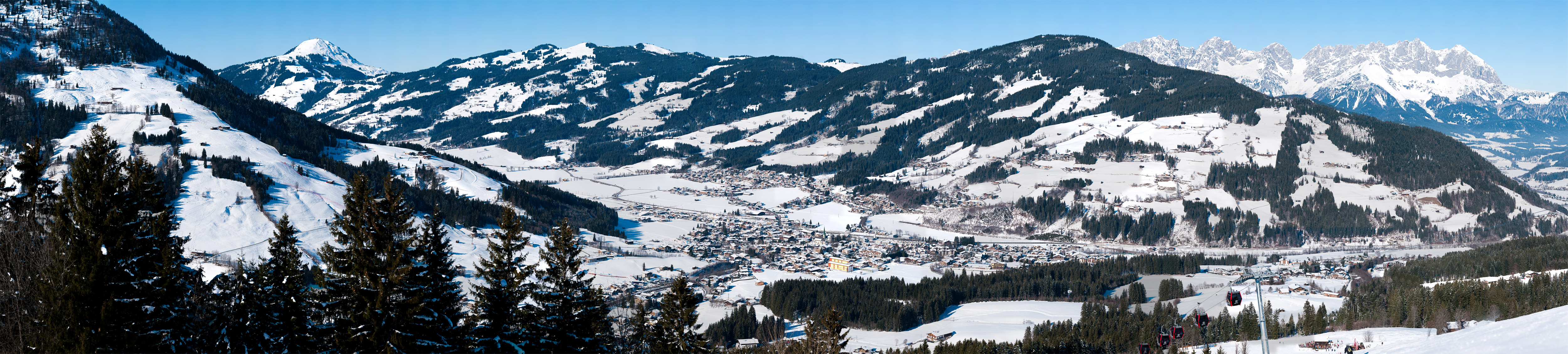 View onto Kirchberg in Tirol. Full Resolution image (162.155x36.595) is available at